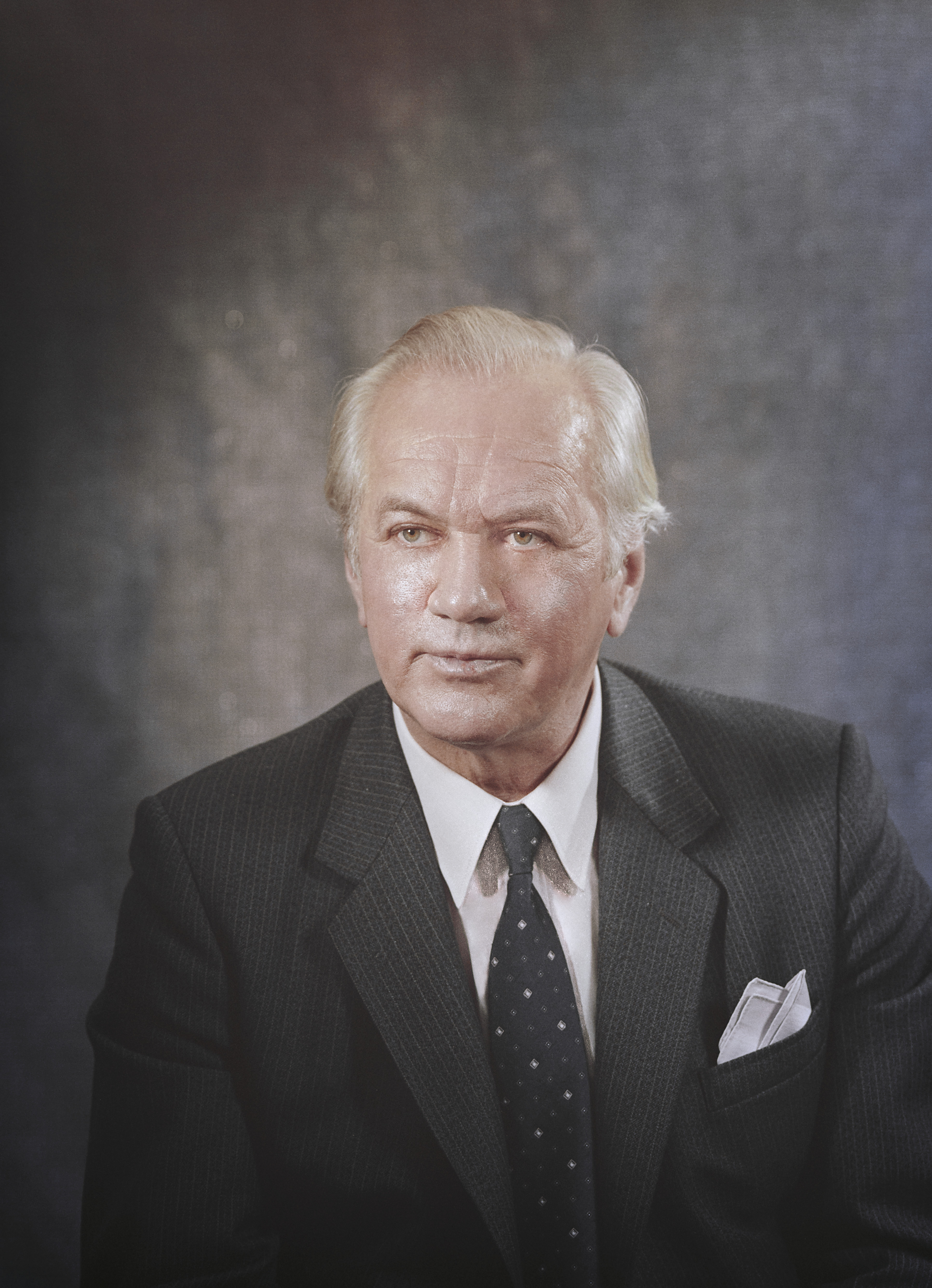 Photograph of the Finnish politician Esko Koppanen (1926–2002).